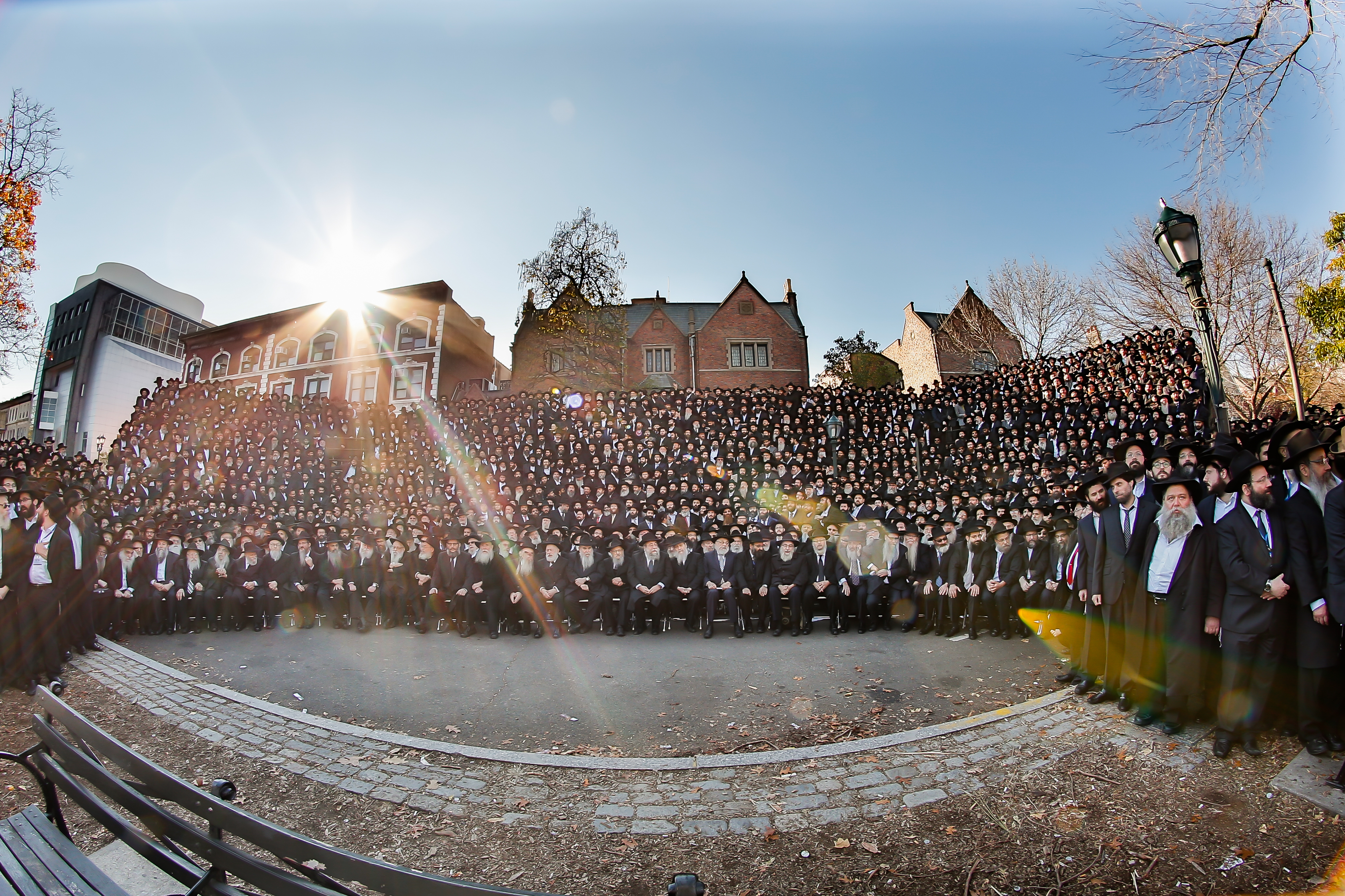 Group photo of Chabad-Lubavitch shluchim 2015.